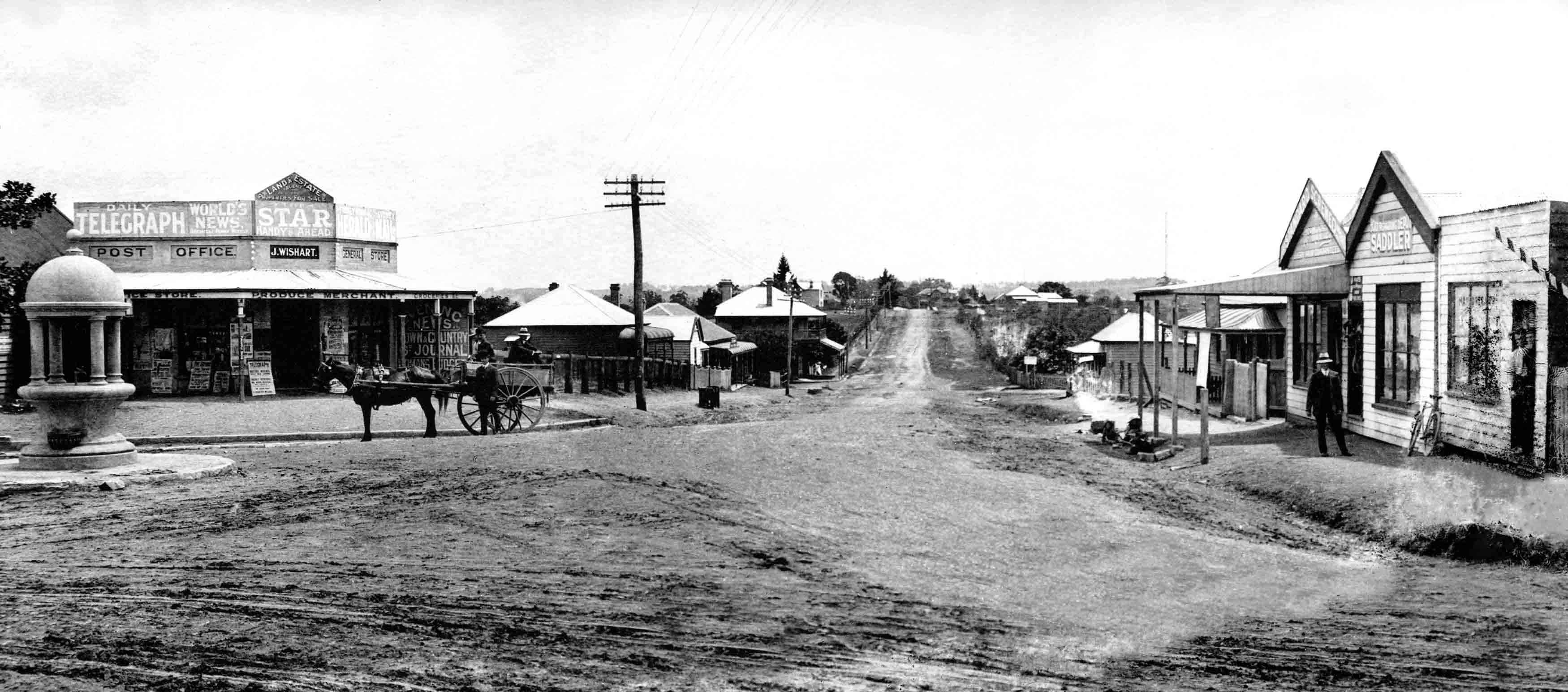 Looking north along Pennant Hills Road from corner of Church Street (now Marsden Road) and Pennant Hills Road, Carlingford, c.1912. Drinking fountain at left (installed 1911 and removed 1929). Post Office and general store J. Wishart proprietor. Pennant Hills Wireless Telegraph Station in distance at right (opened 1912). William Sullivan Saddler (possibly his children playing in gutter). Sullivan renovated his premises to a brick finish in 1915 - here seen in weatherboard.